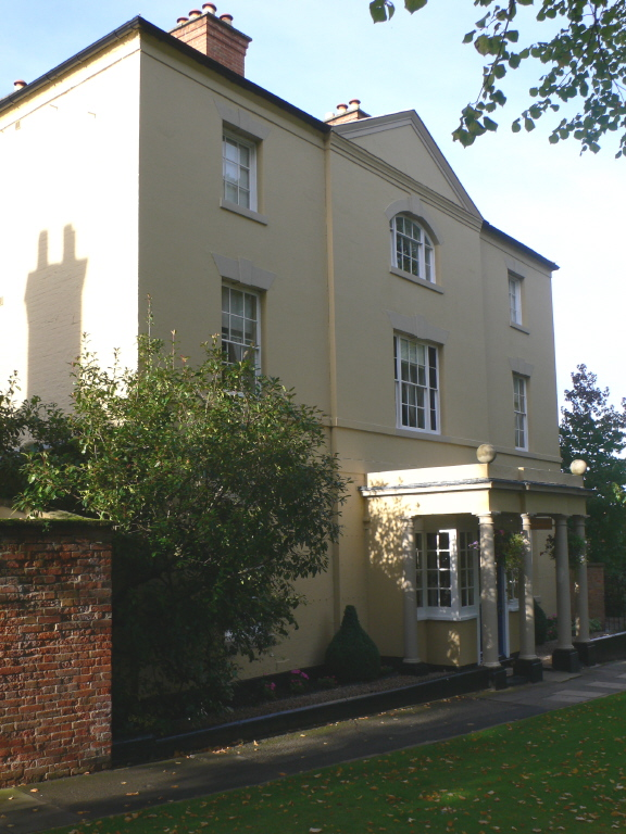 Lord Byron's house, Southwell